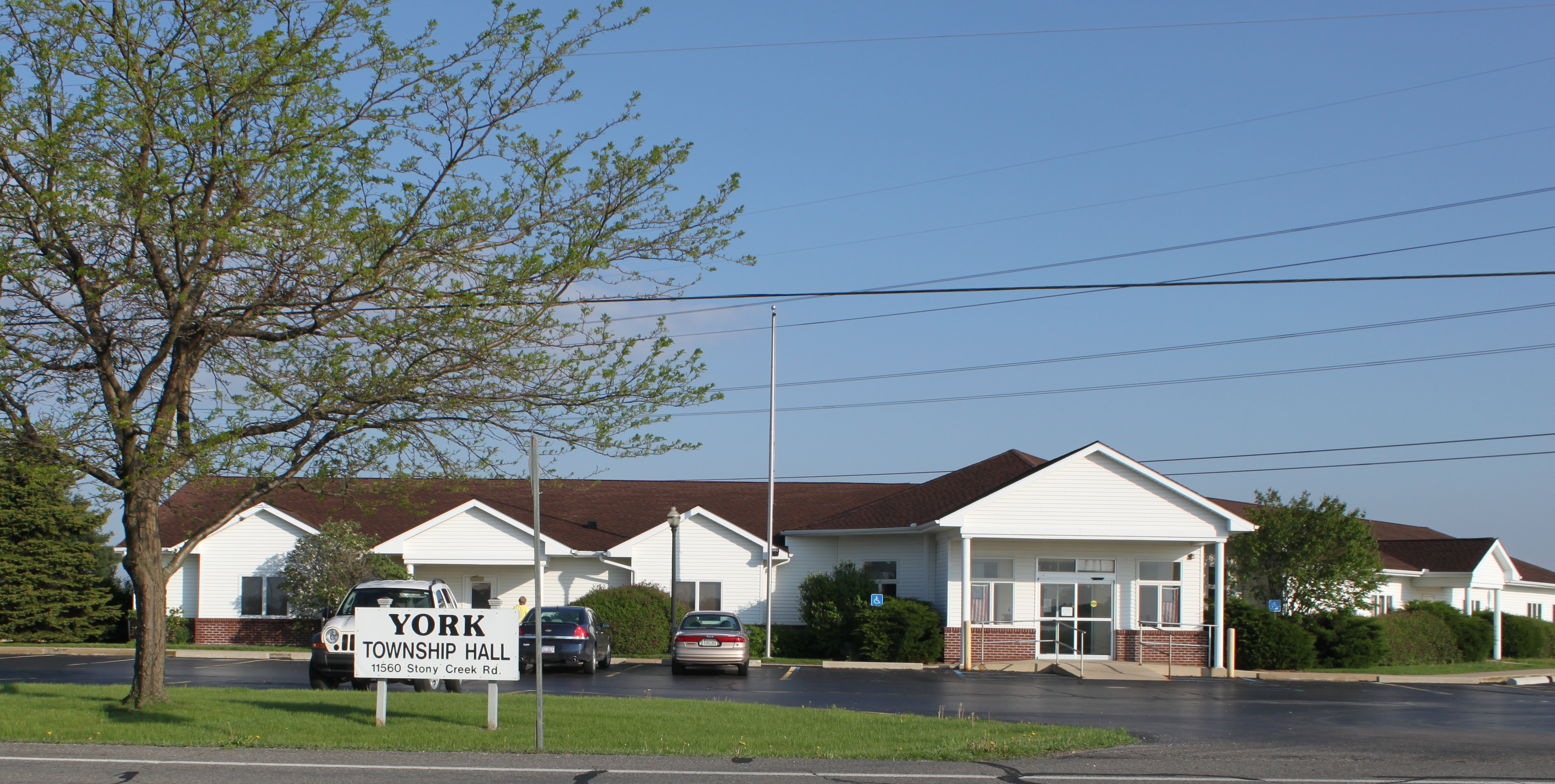 York Township Hall, 11560 Stony Creek Rd., Milan Michigan 48160